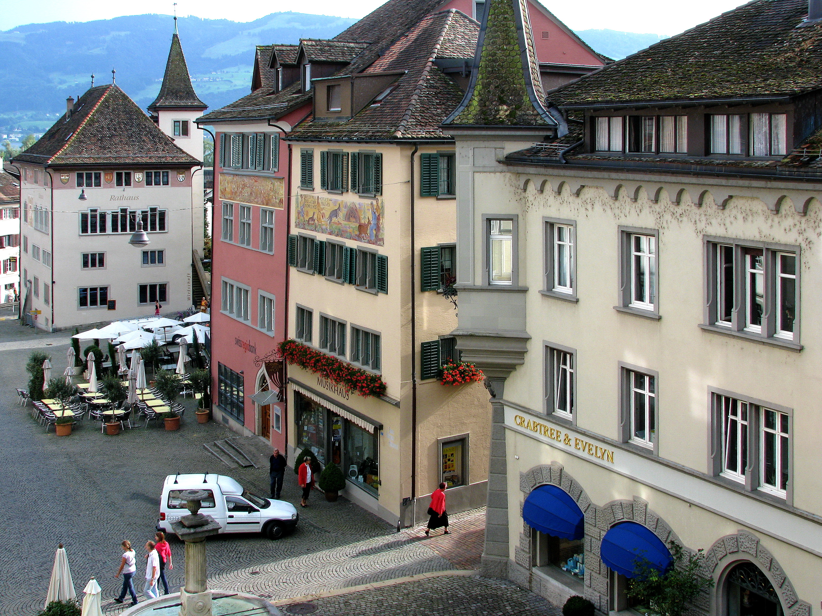 Rapperswil (SG) : Hauptplatz and historical quarter, in the background (to the right) the former Rathaus, as seen from Schloss Rapperswil.